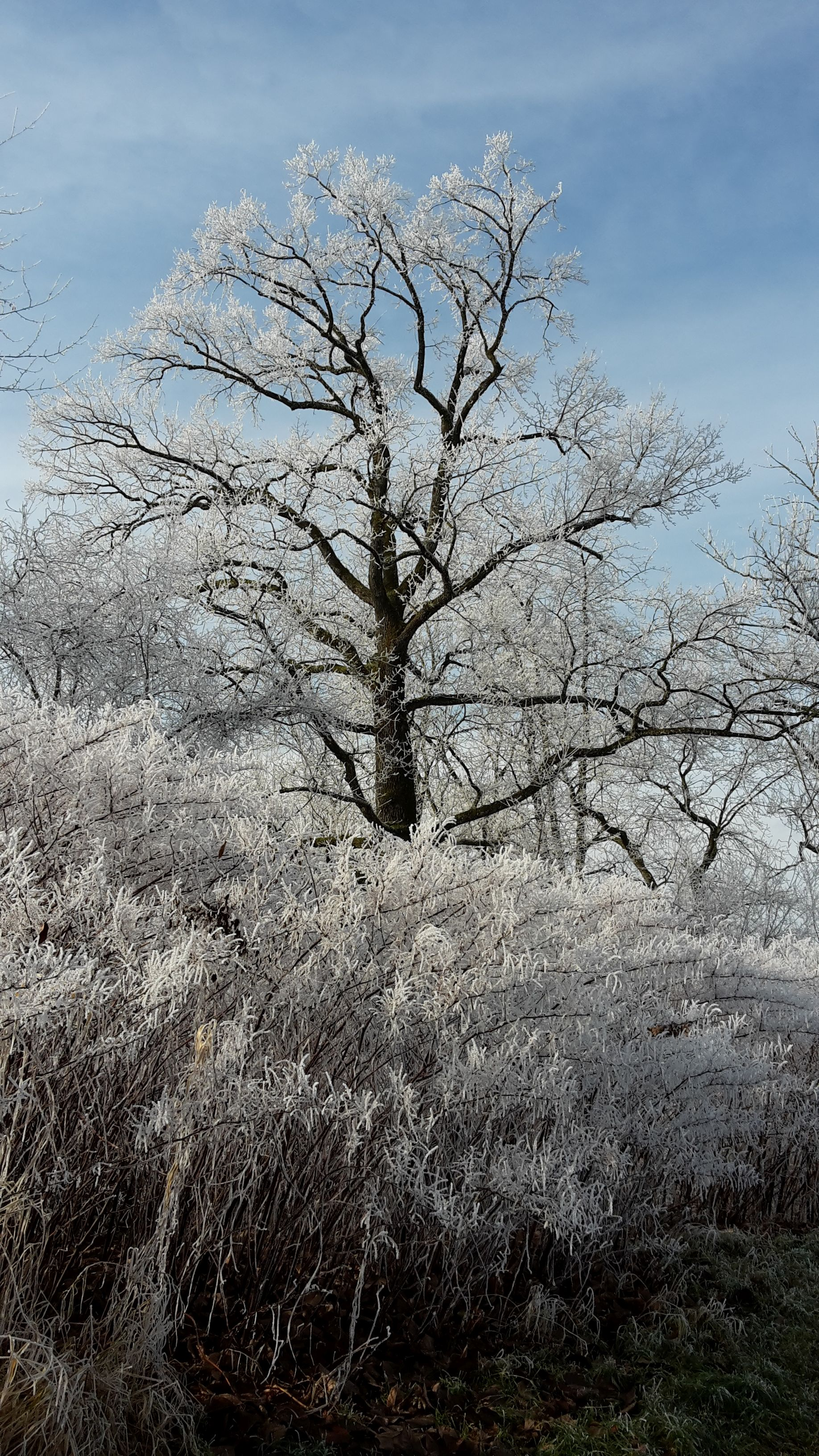 Hoar frost at the Fischbach in Dornbirn, Vorarlberg, Austria.